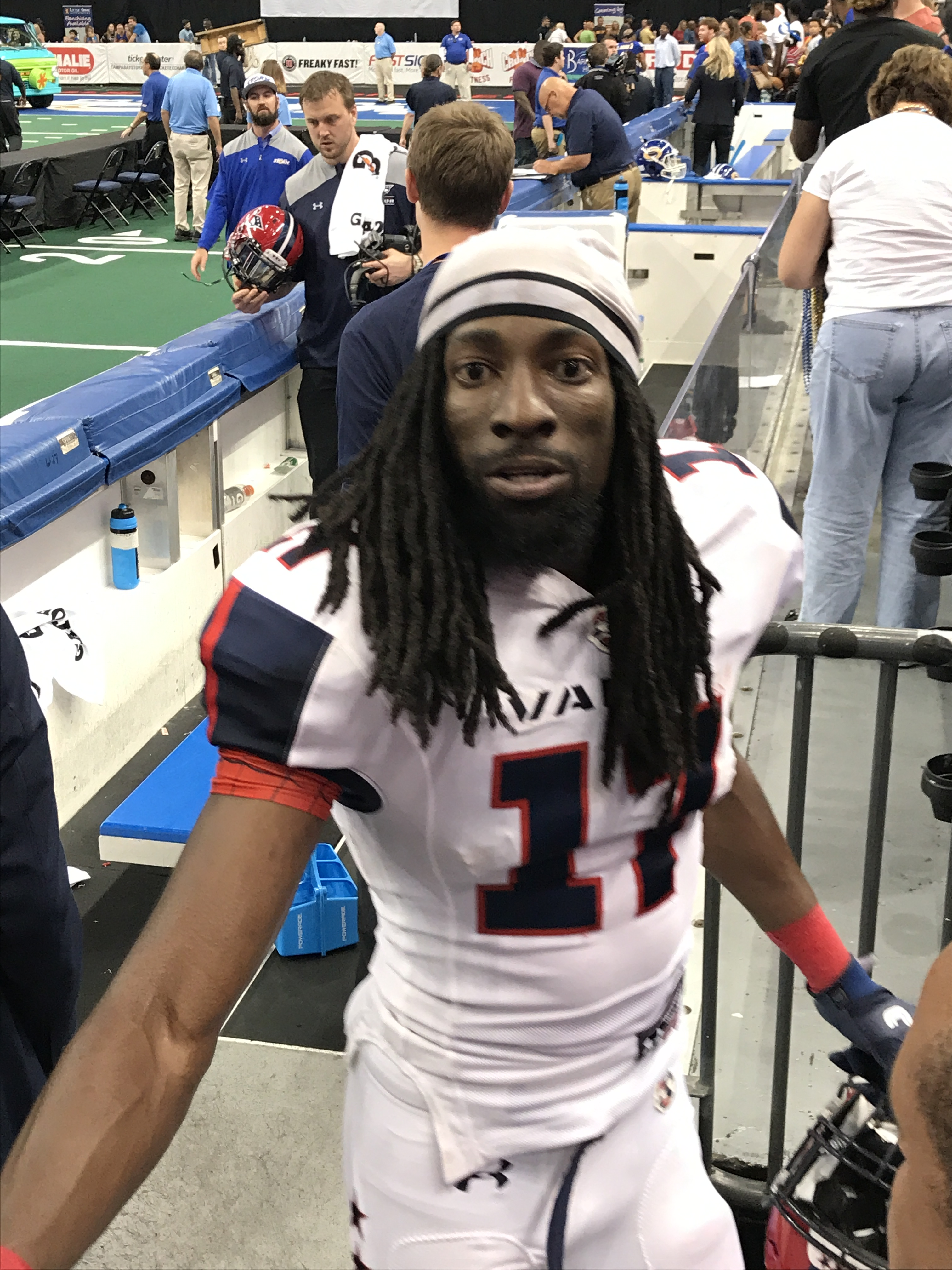 Roger Jackson postgame